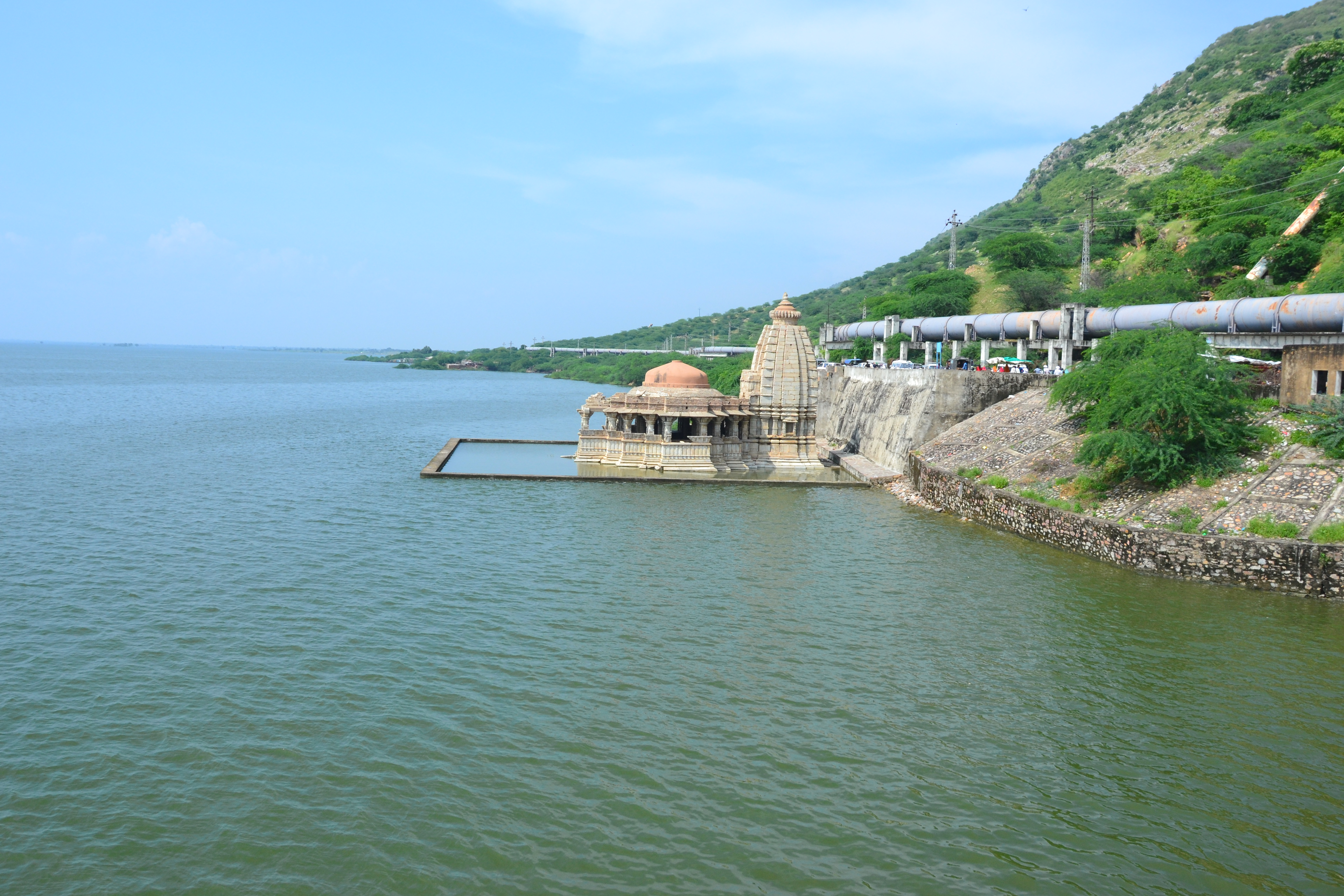 temple of bisalpdeo at bisalpur fully submerged during rains at tonk